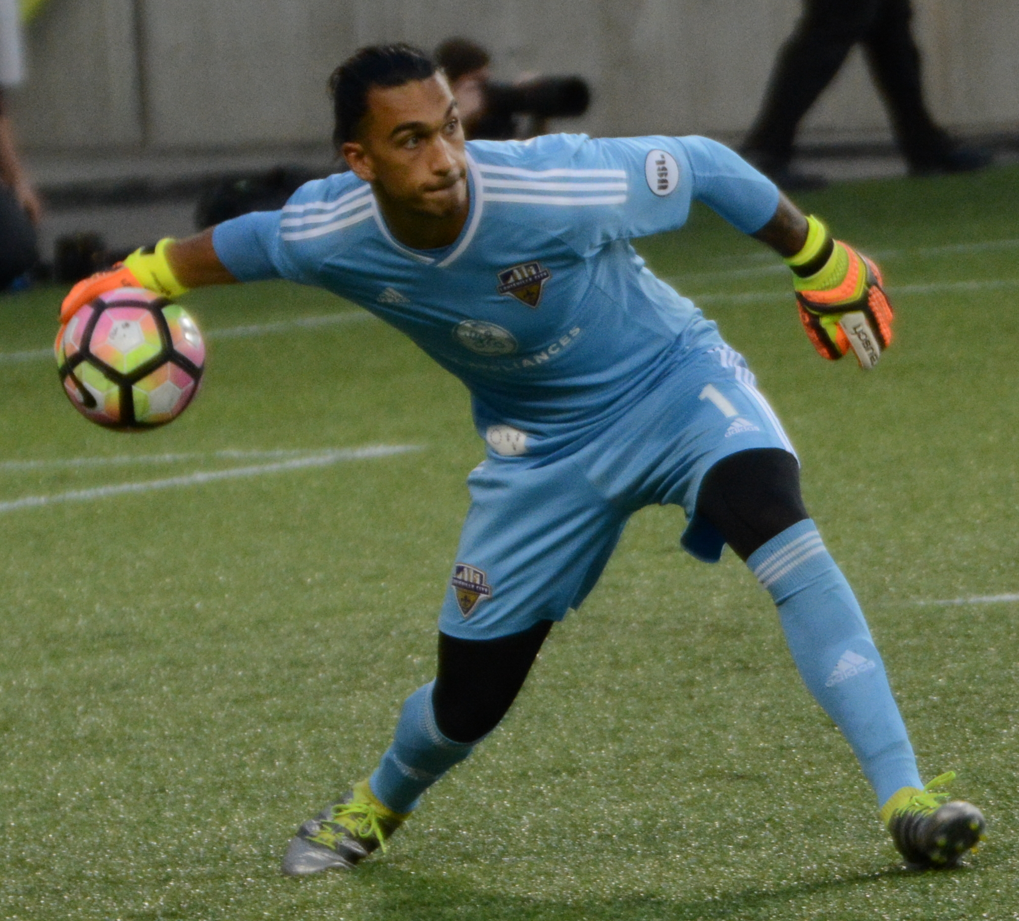 Greg Ranjitsingh Taken at a Lamar Hunt U.S. Open Cup match between FC Cincinnati and Louisville City FC at Nippert Stadium in Cincinnati, Ohio on May 31, 2017.